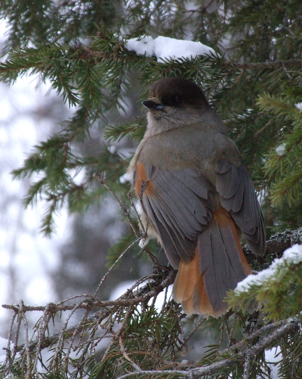 A Siberian Jay (Perisoreus infaustus) in Kittilä, Finland